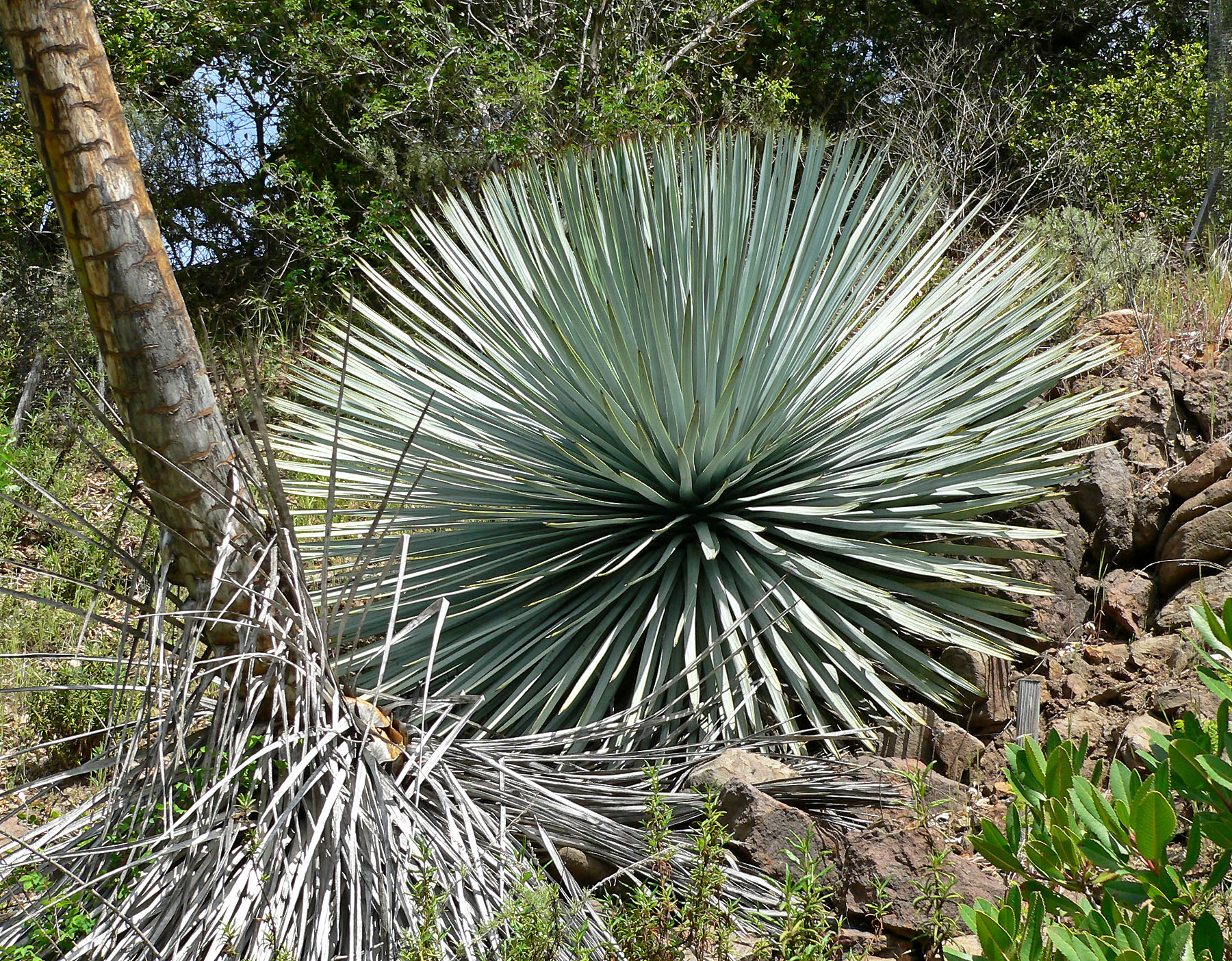 Photo of Hesperoyucca whipplei ssp. parishii at the Regional Parks Botanic Garden, Berkeley, California